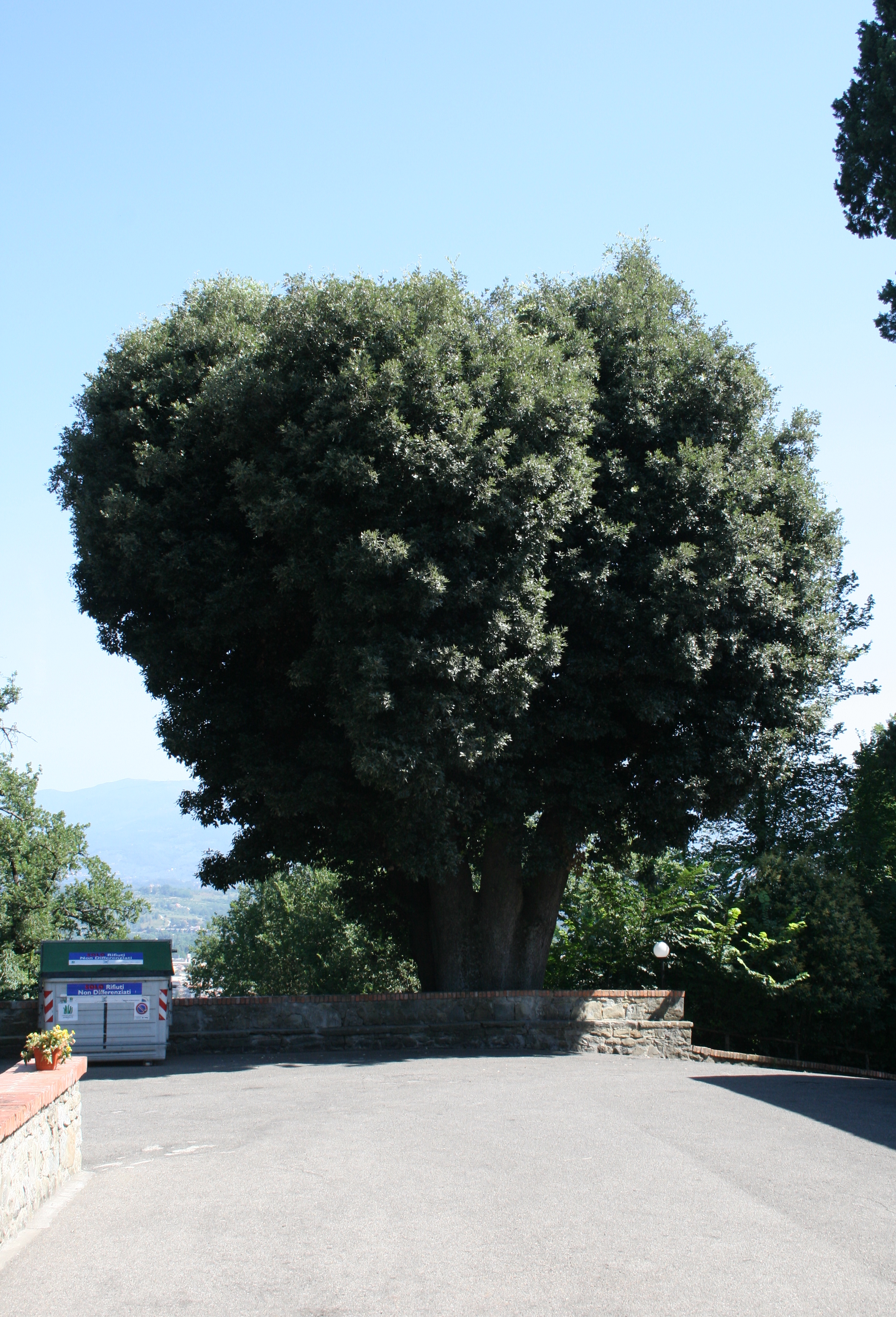 An holm-oak 1.000 y.o near the Cappuccini Convent in Montevarchi